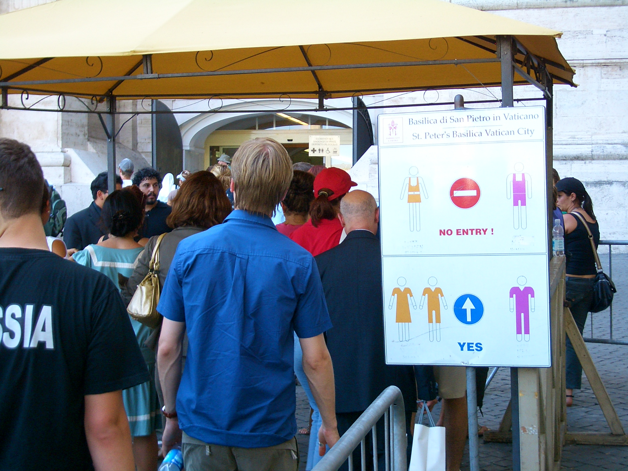 Tourists queueing outside of St Peter Basilica. A placard explains the dress code for the visitors through illustrations. The unacceptable examples leave the shoulders and thighs bare; the acceptable examples cover them.